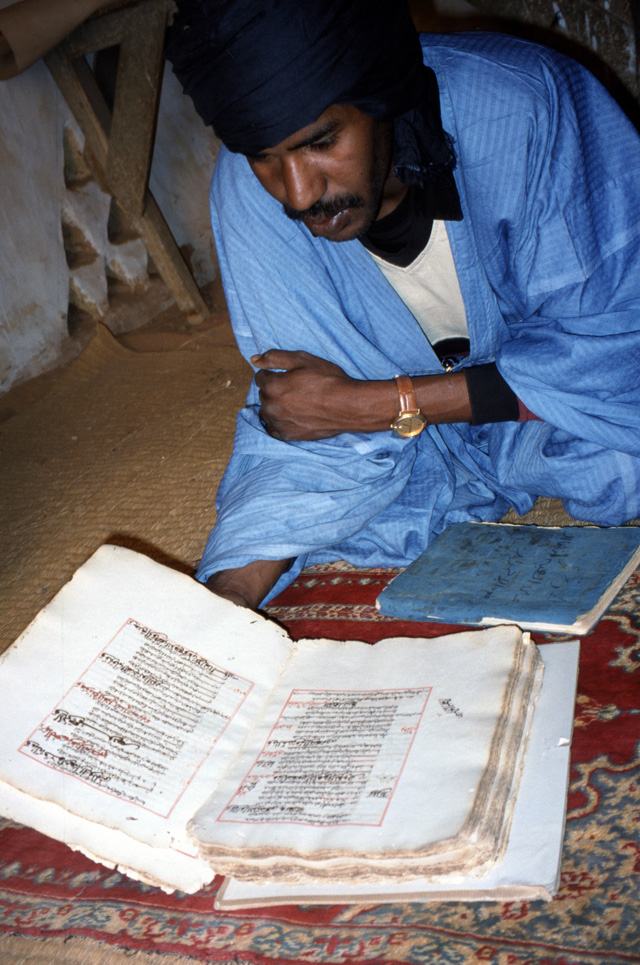 Visit to the library at Chinguetti, 1998